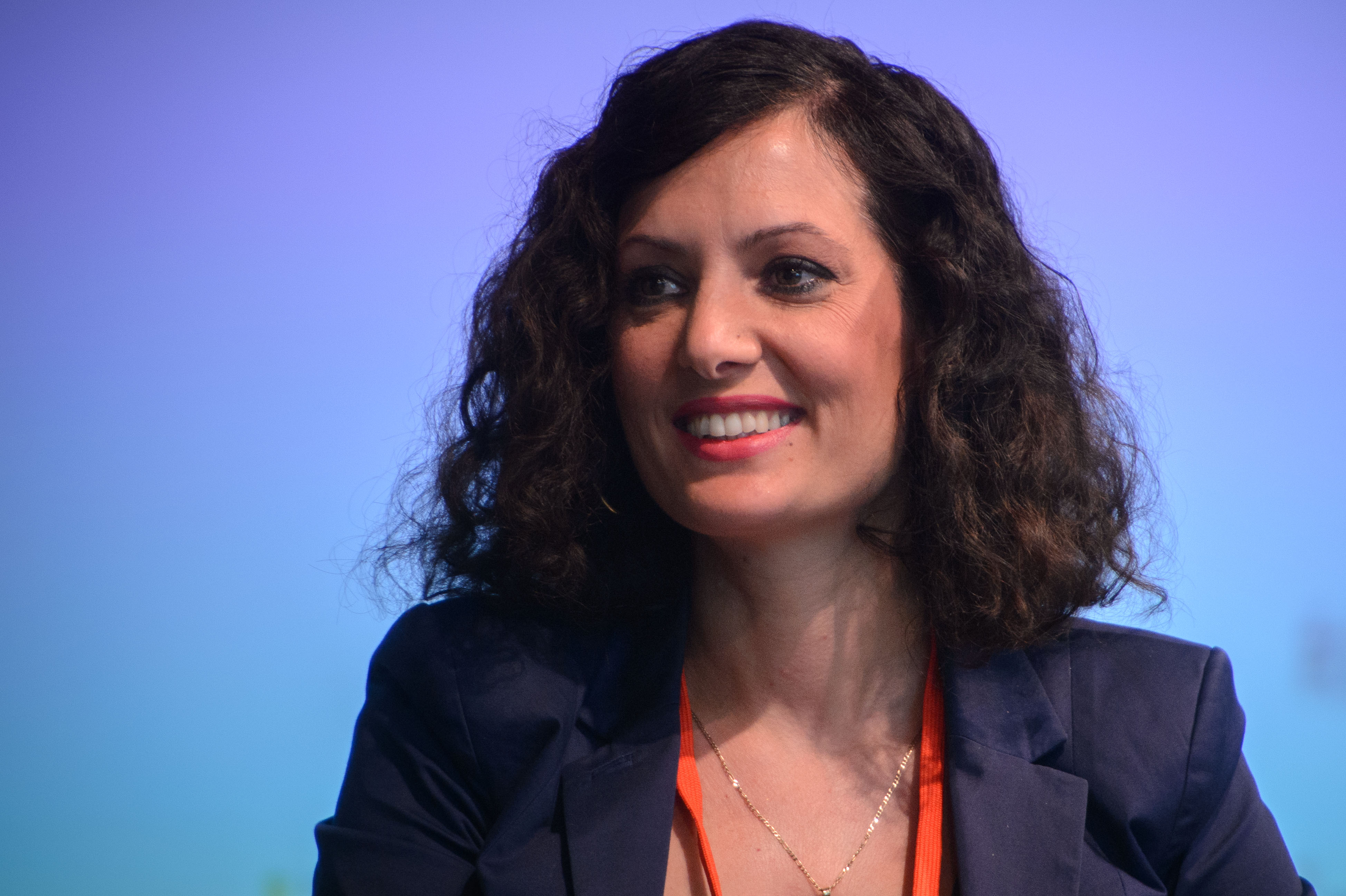 Naika Foroutan (Head Researcher of the HEYMAT project, Humboldt University of Berlin (Berlin), Foto